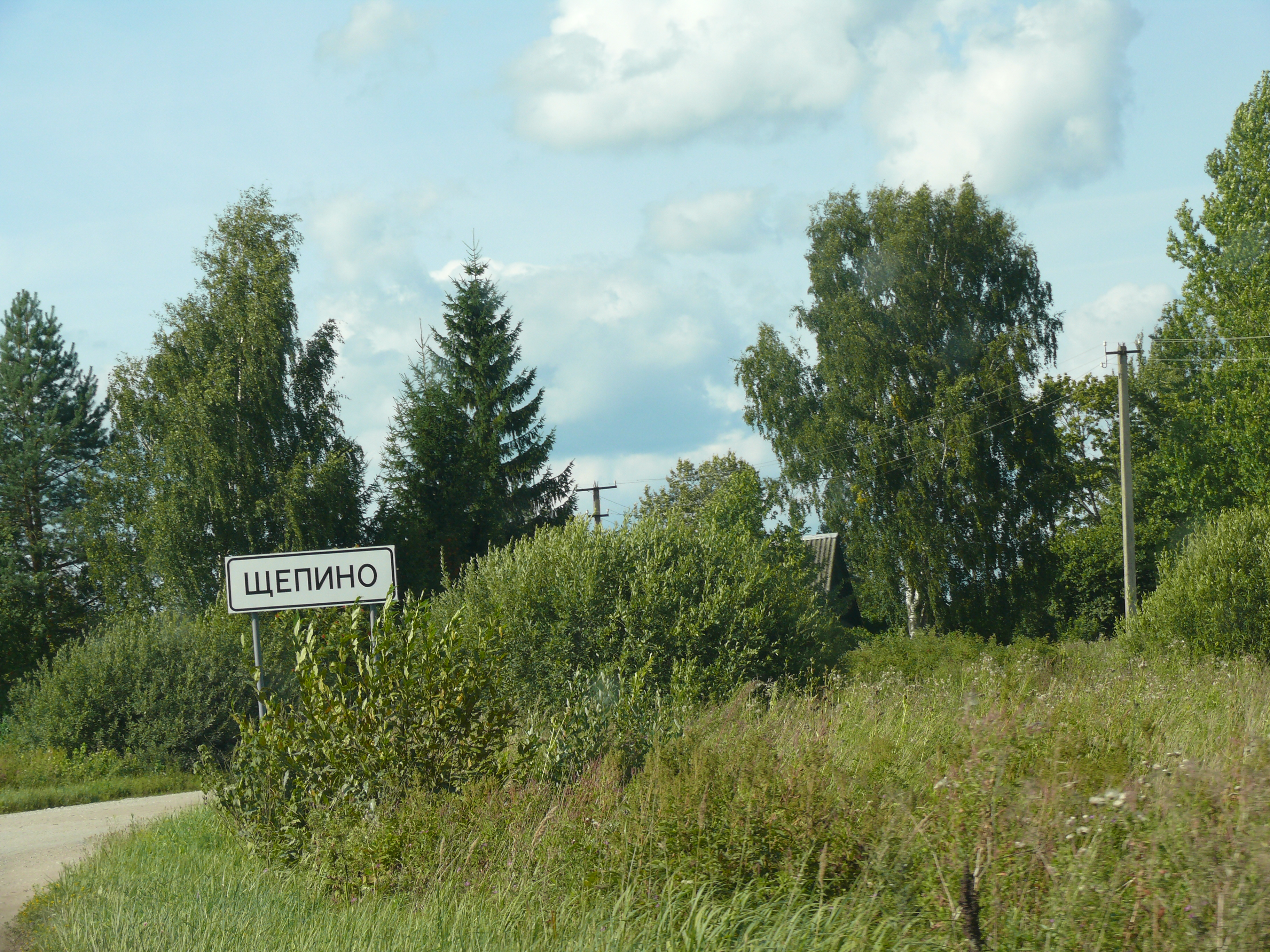 Shepino village, Batetsky district, Novgorod oblast, Russia